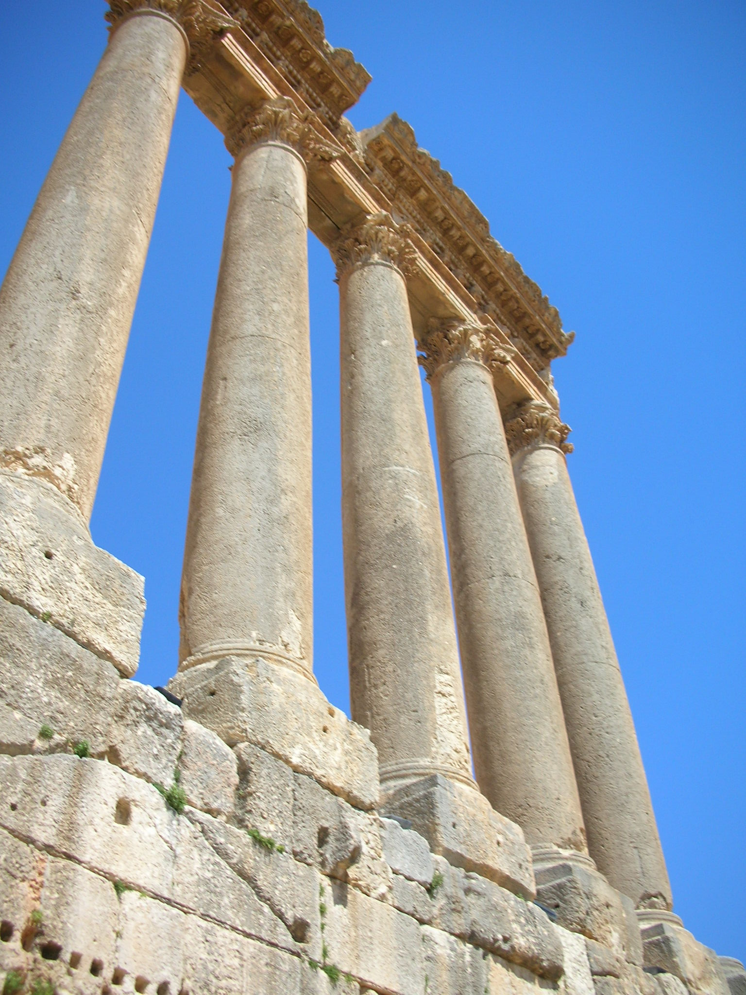 Baalbek (Lebanon)